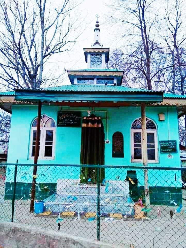 Shrine Of Faqeer Soch Kraal Sahab R.A.